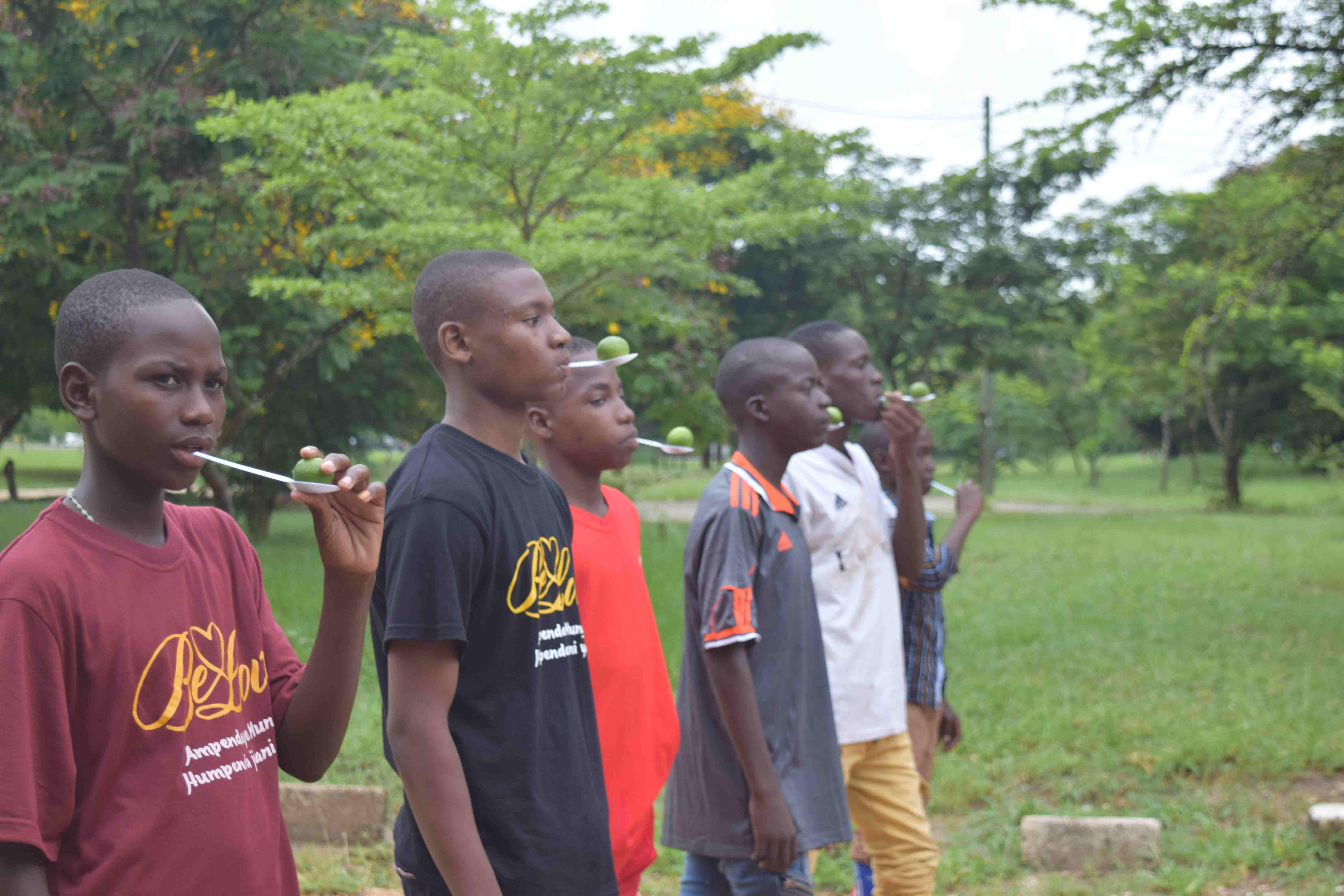 Children walking with limes (put on spoons). This is one of the games played in Tanzania. The principle of the game is to not drop the lime until the end of the line. This is an image with the theme "Play" from: Tanzania